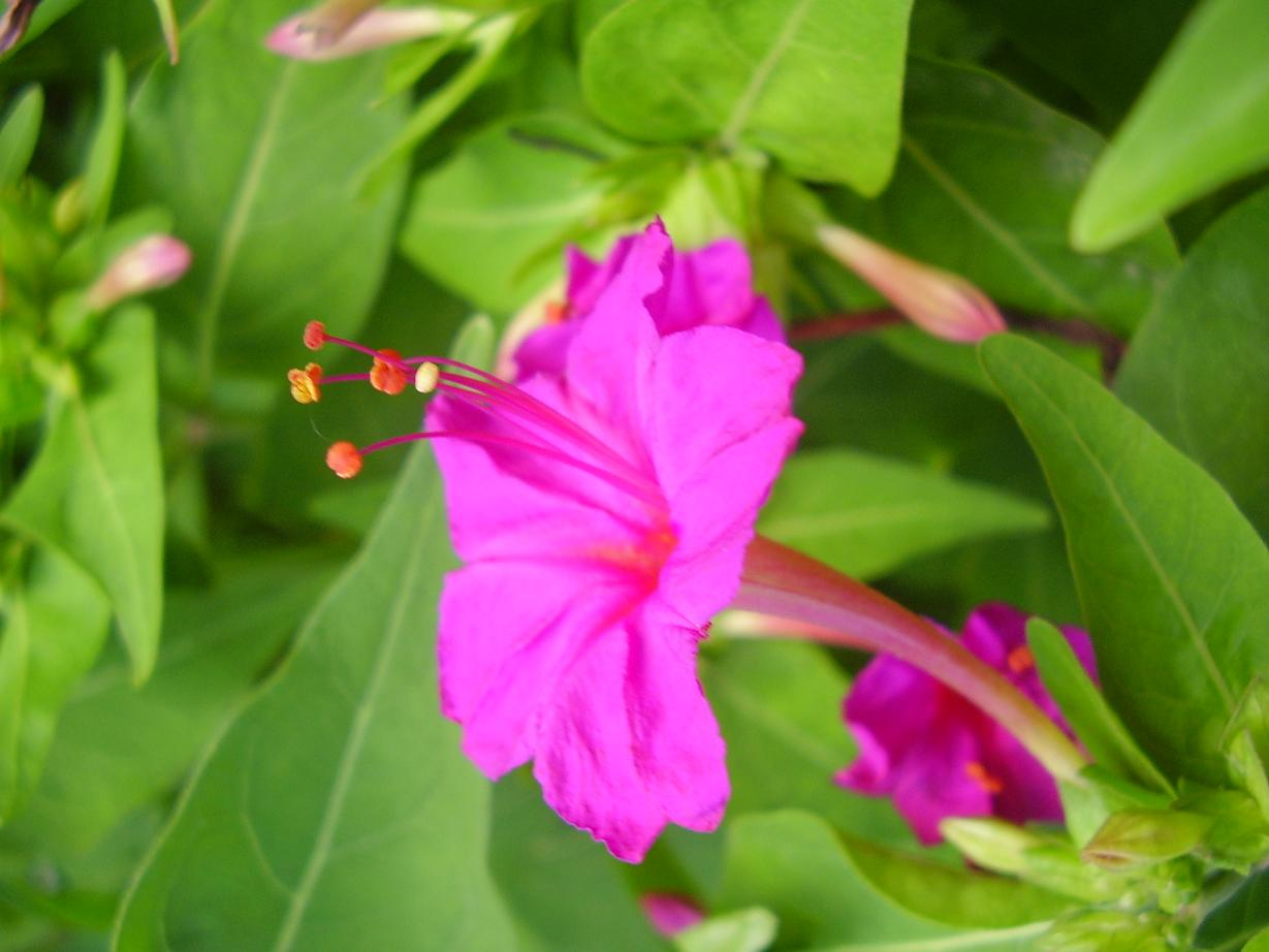 My own creation